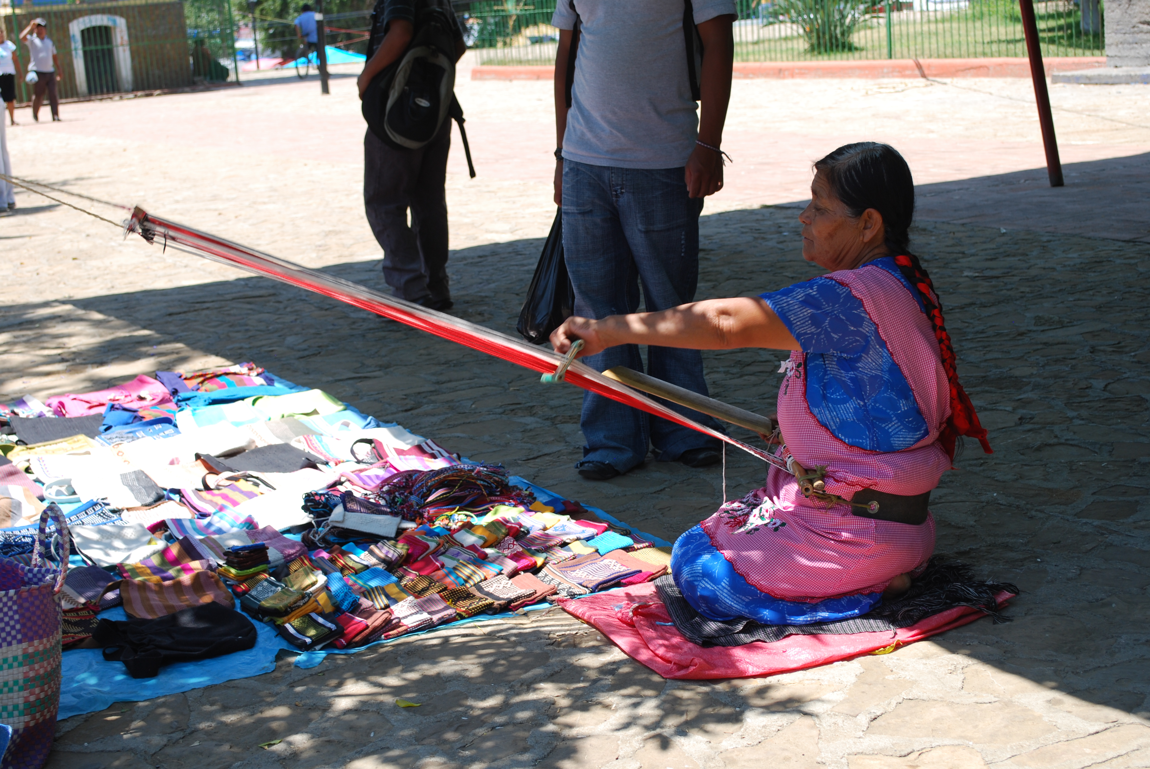 Woman weaving on backstrap loom on market day in Zaachila, Oaxaca, Mexico